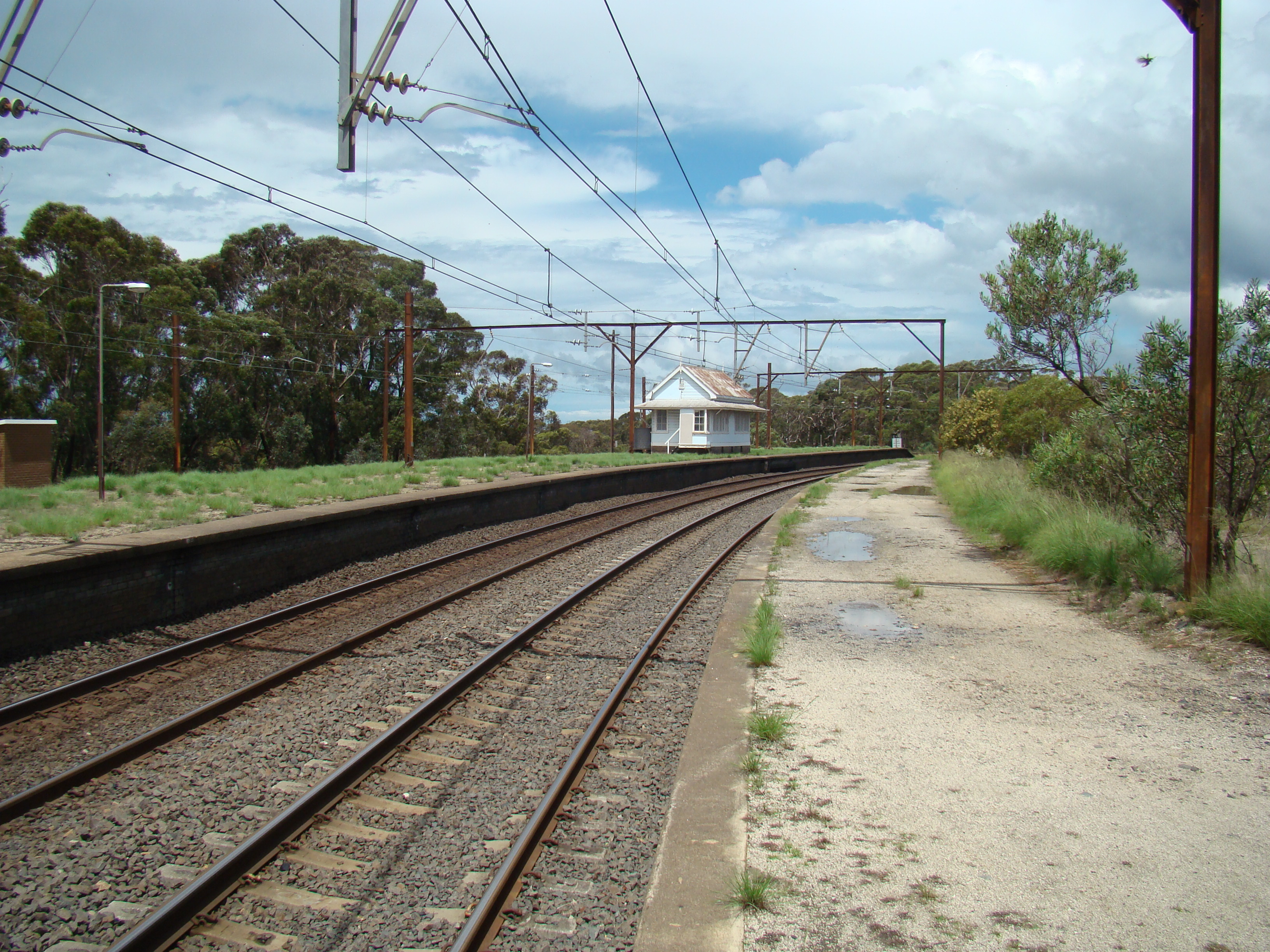 Newnes Junction station from down platform looking north east